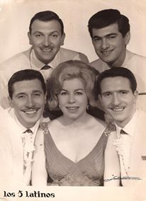 Los 5 Latinos